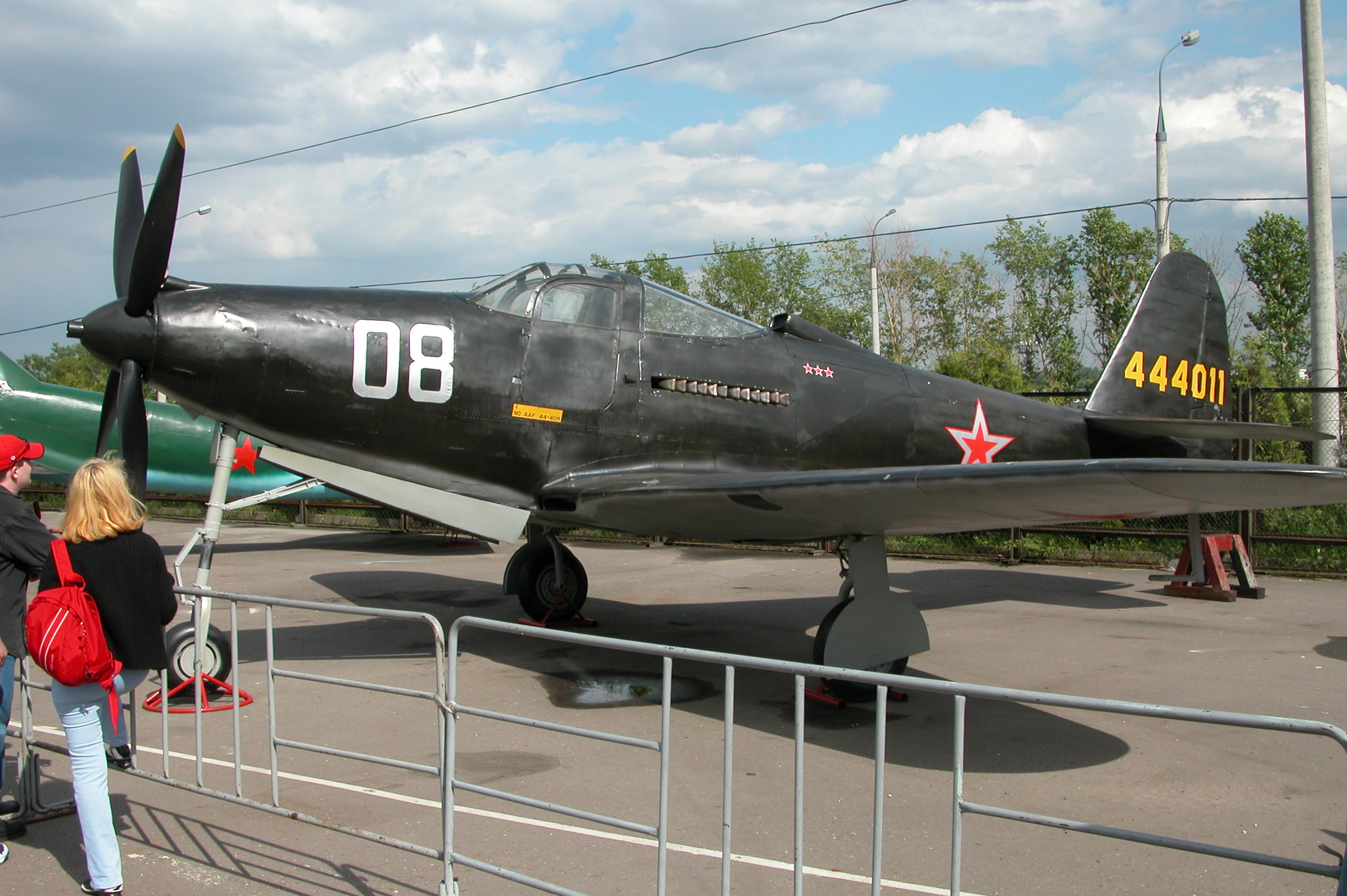 Bell P-63 Kingcobra on display in Victory Park, Moscow. Photo taken in June 2004.